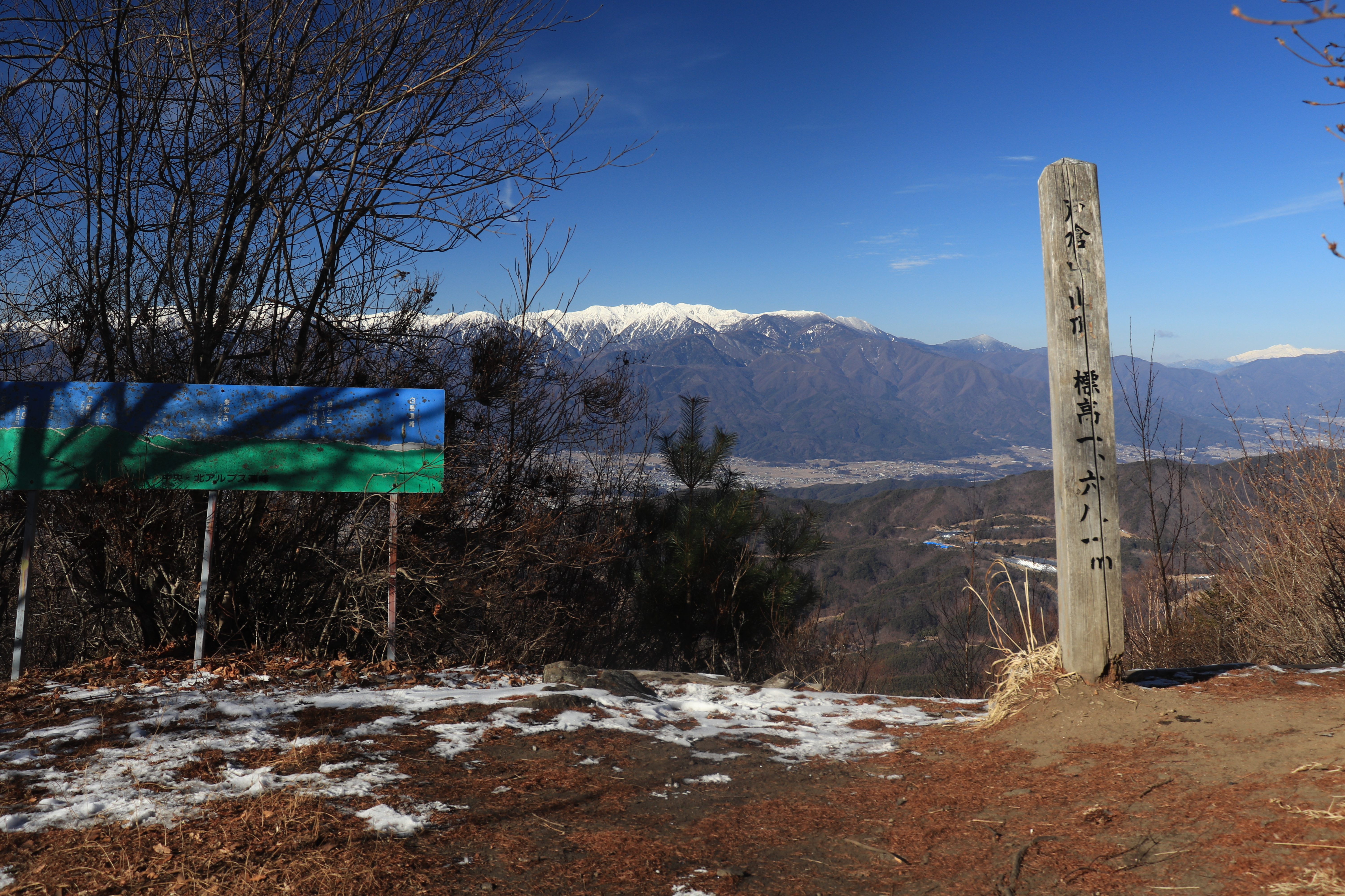 Western peak of Mount Tokura in the Ina Mountains, Ina and Komagane Cities, Nagano Prefecture, Japan